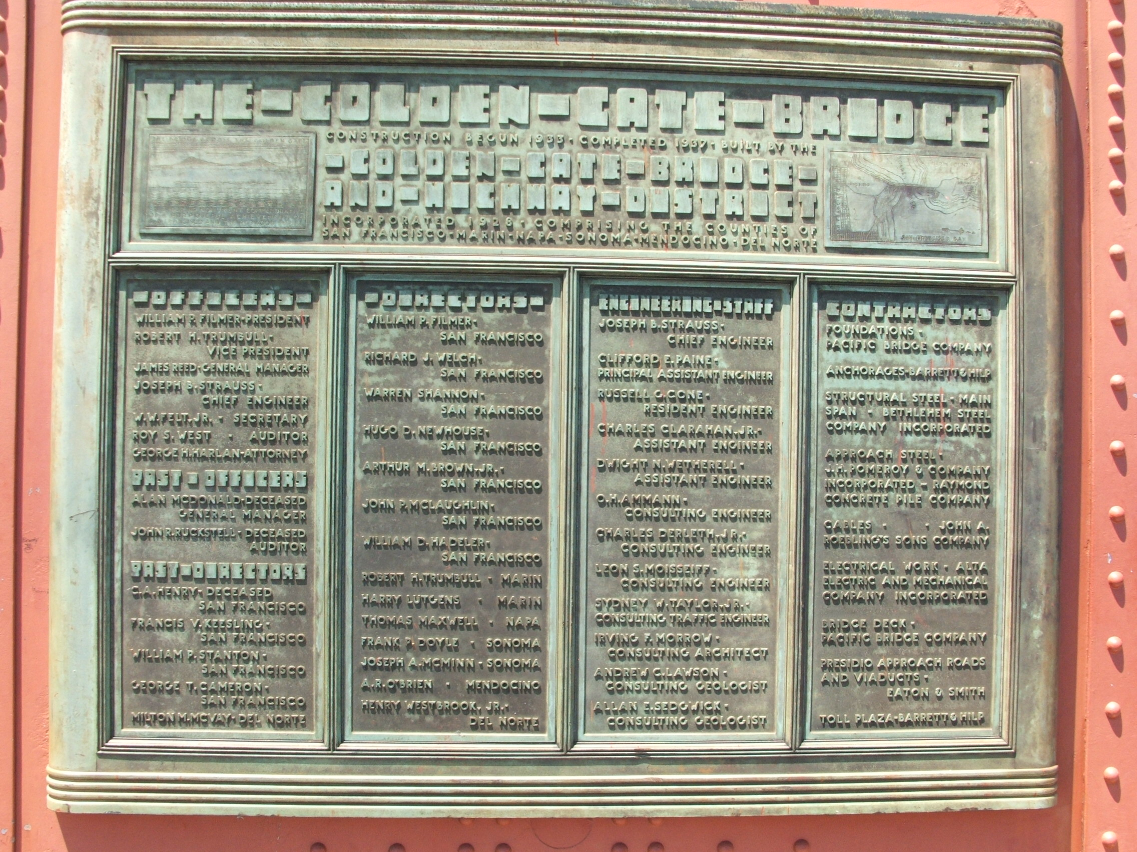 Golden Gate Bridge.